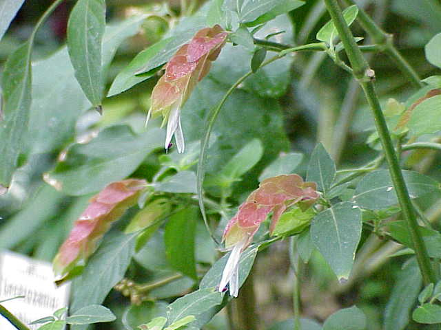 Species: Beloperone guttata Family: Acanthaceae Image No. 2